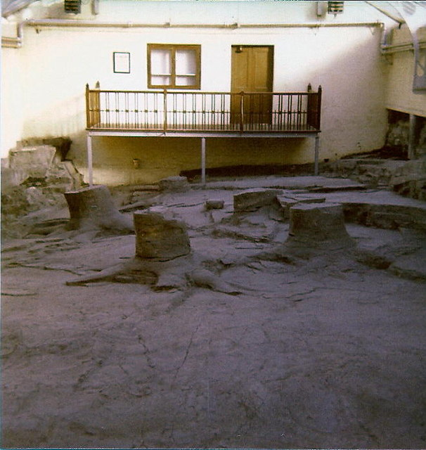 Fossilised Lepidodendron tree stumps of Carboniferous age in the Fossil Grove in Victoria Park in Glasgow, Scotland.